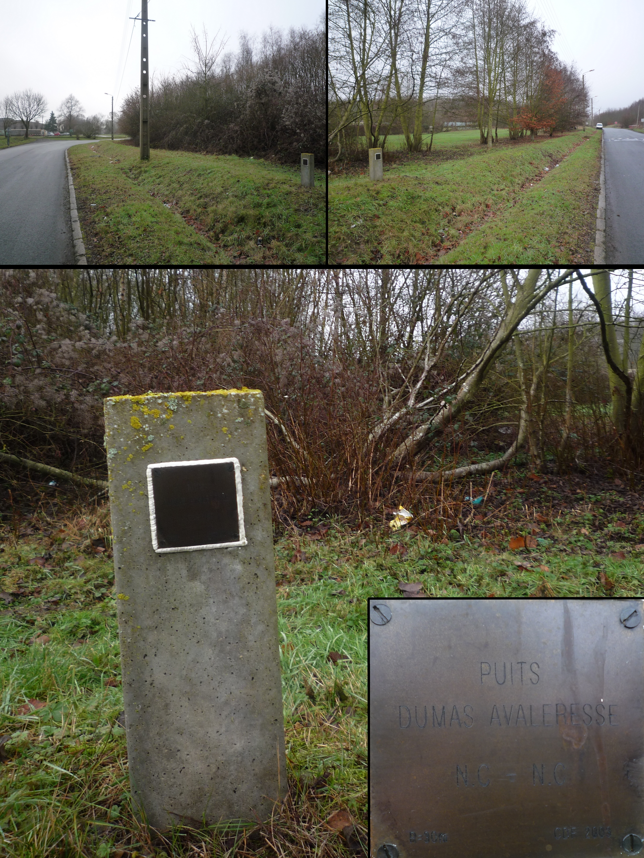 Pit Dumas Avaleresse, Compagnie des mines de Douchy, Lourches, Nord, Nord-Pas-de-Calais, France.